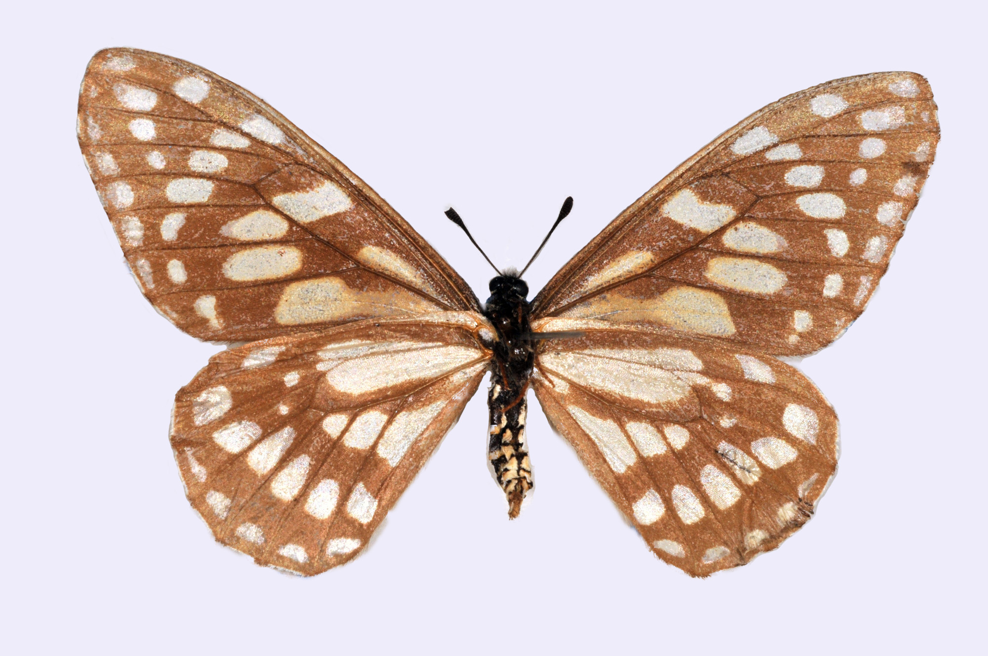 Baronia brevocornis Derivative - Cleaned background of File:Baronia_brevicornis_no1_3.jpg